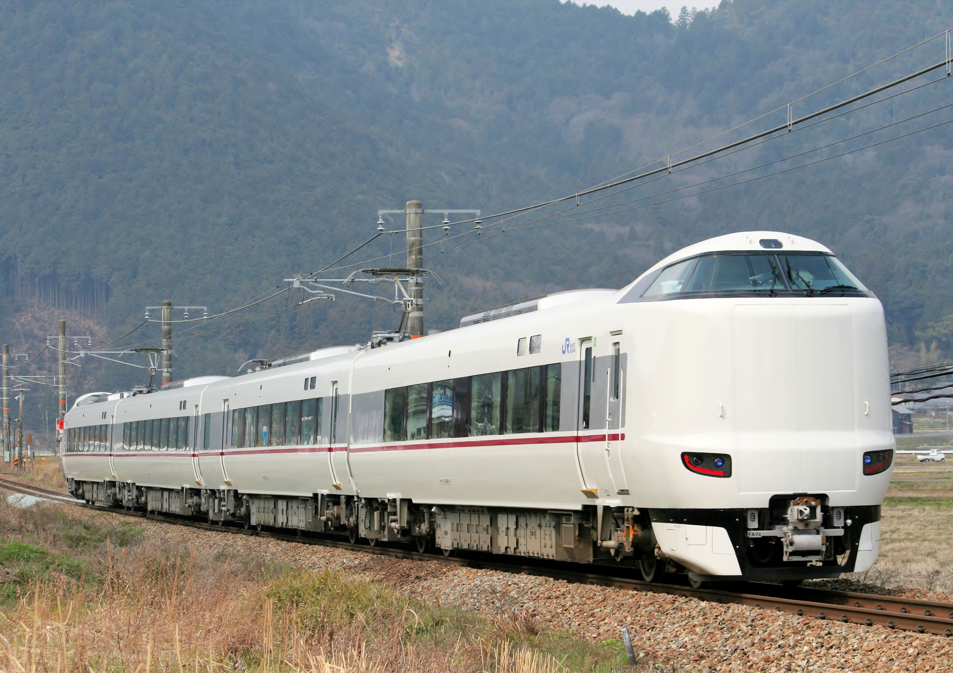 JR West 287 series 4-car set FA04 on a "Konotori" limited express service on the Fukuchiyama Line between Kuroi and Iso stations